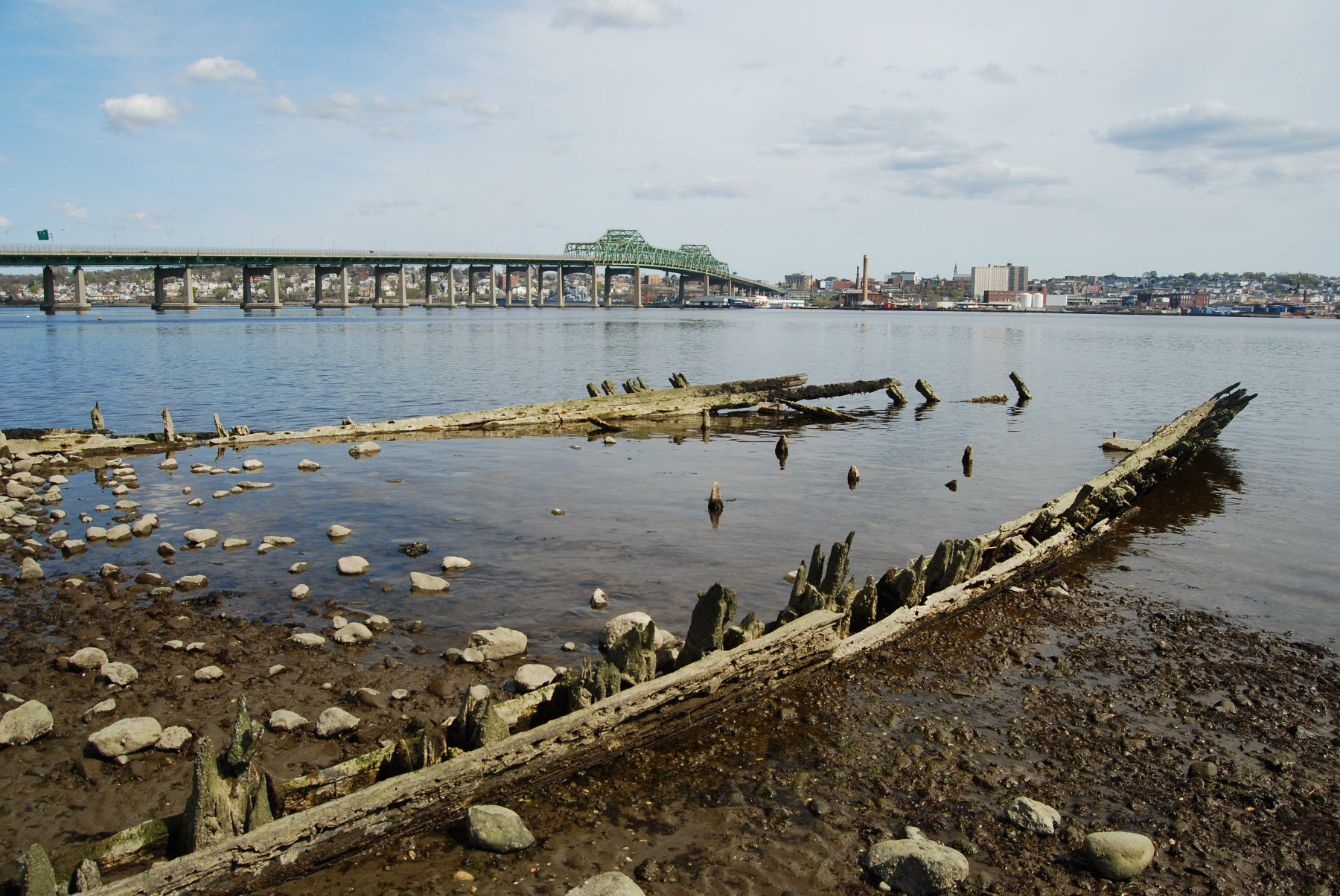 Wreck of the City of Taunton, a freight steamer of the Fall River Line. Located on the western shore of Mount Hope Bay at Brayton Point in Somerset, Massachusetts